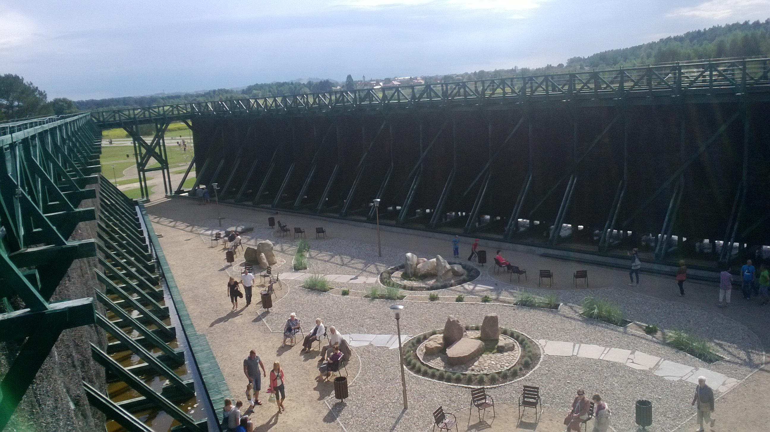 The graduation tower in Goldap ( Poland)